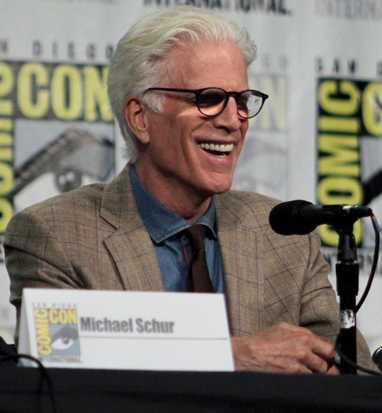 Cast and crew of NBC's 'The Good Place' discuss the show in the Indigo Ballroom at the San Diego Hilton Bayfront Hotel during San Diego Comic Con on July 21, 2018. Taken by Dominique Redfearn.